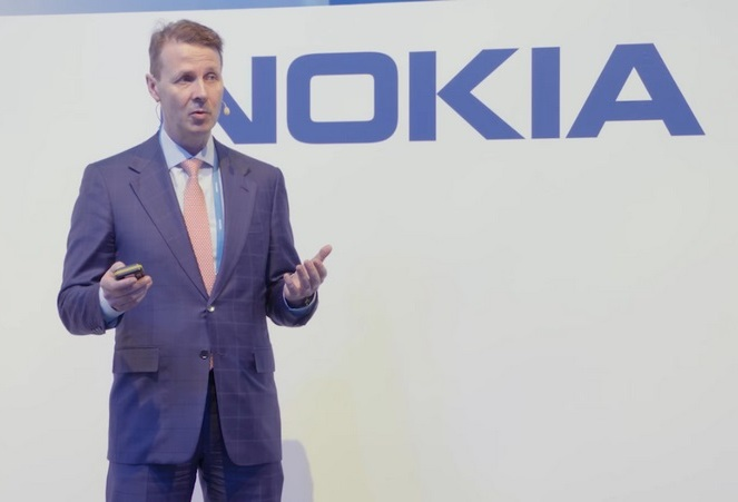 Risto Siilasmaa on stage, MWC 2018